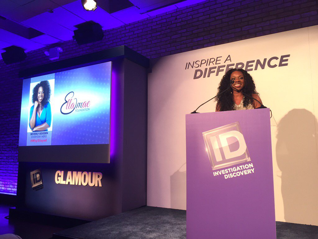 Beverly Gooden receiving the Everyday Hero Award at the Investigation Discovery & Glamour Inspire A Difference Honors Event in New York, NY